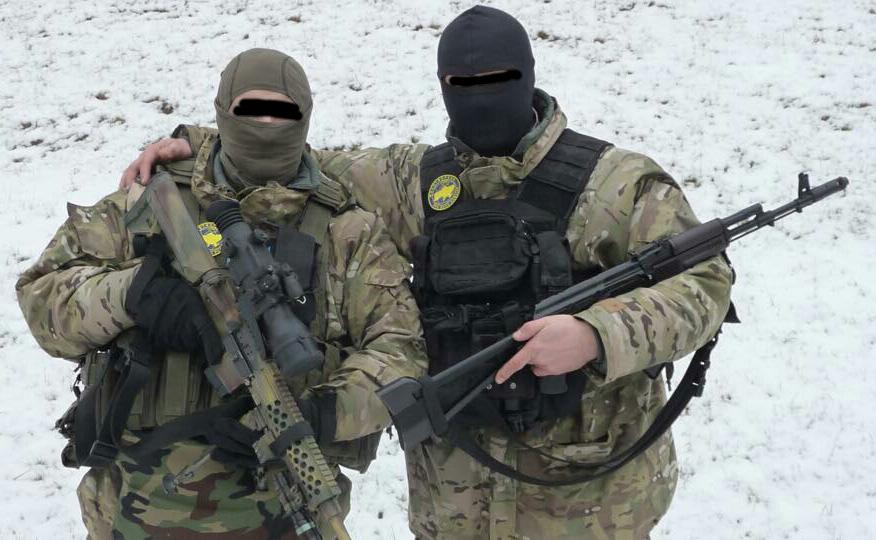 Members of Mirotvoretz team in operation.